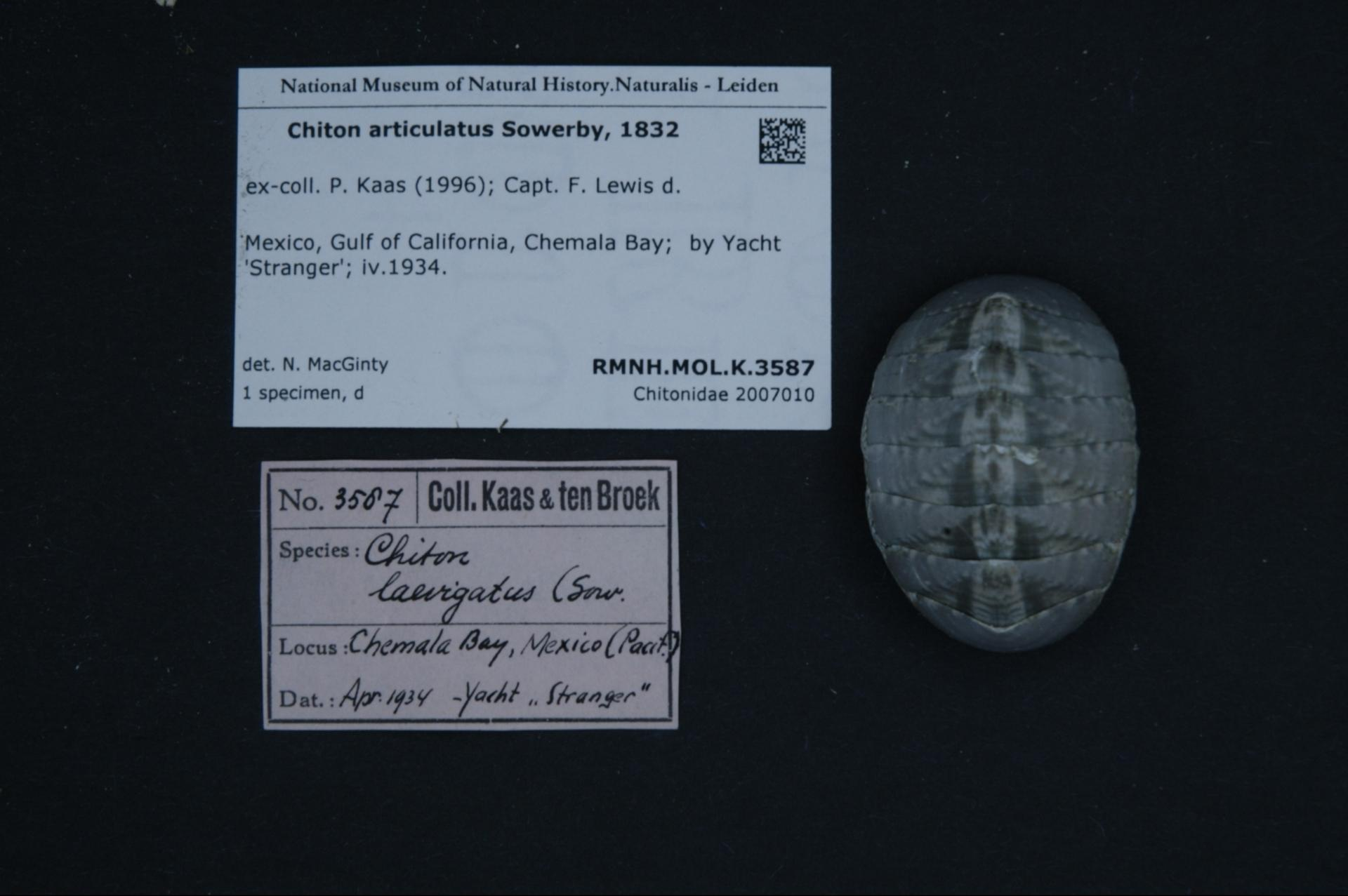 Chiton articulatus Sowerby, 1832